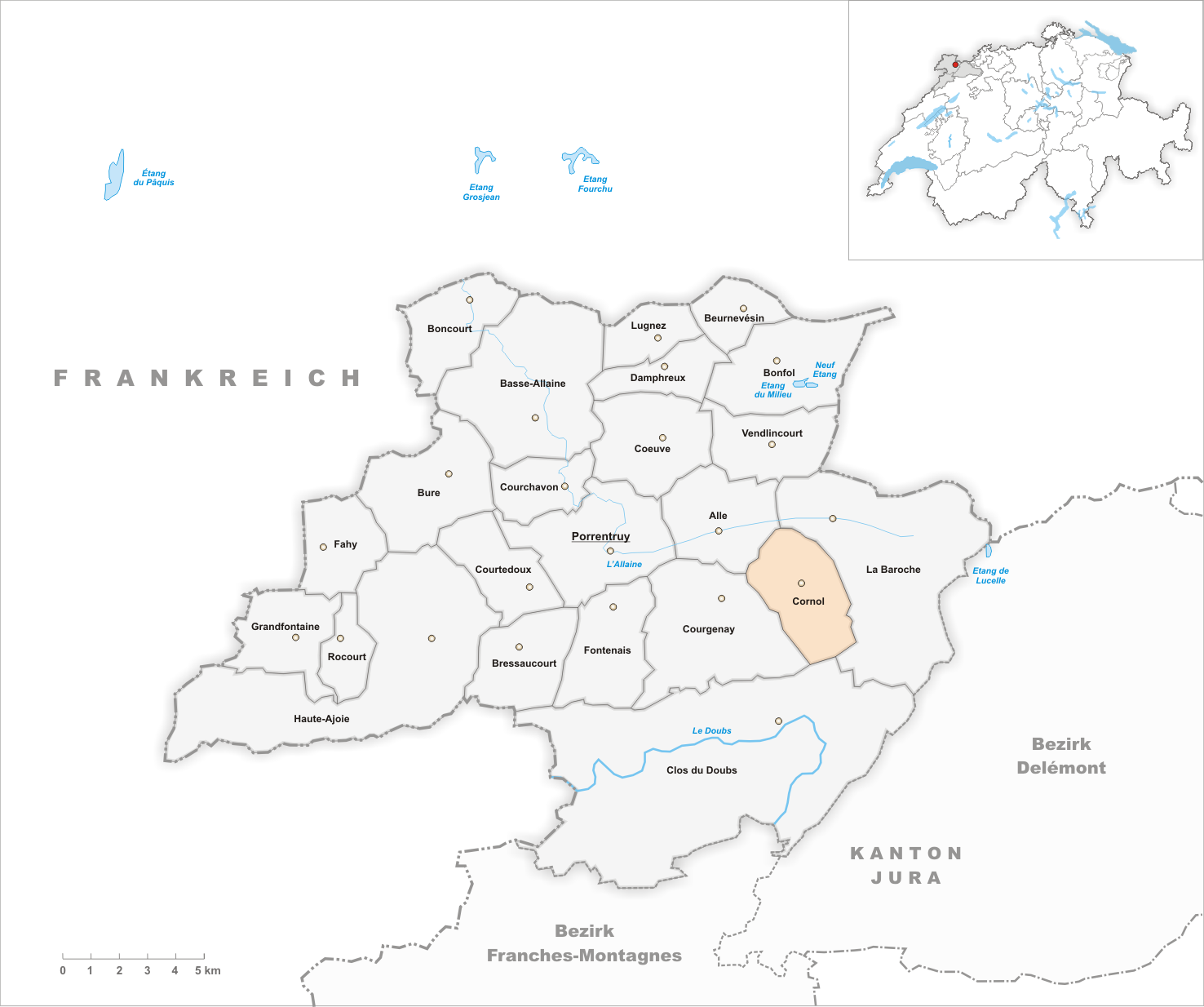 Municipality Cornol